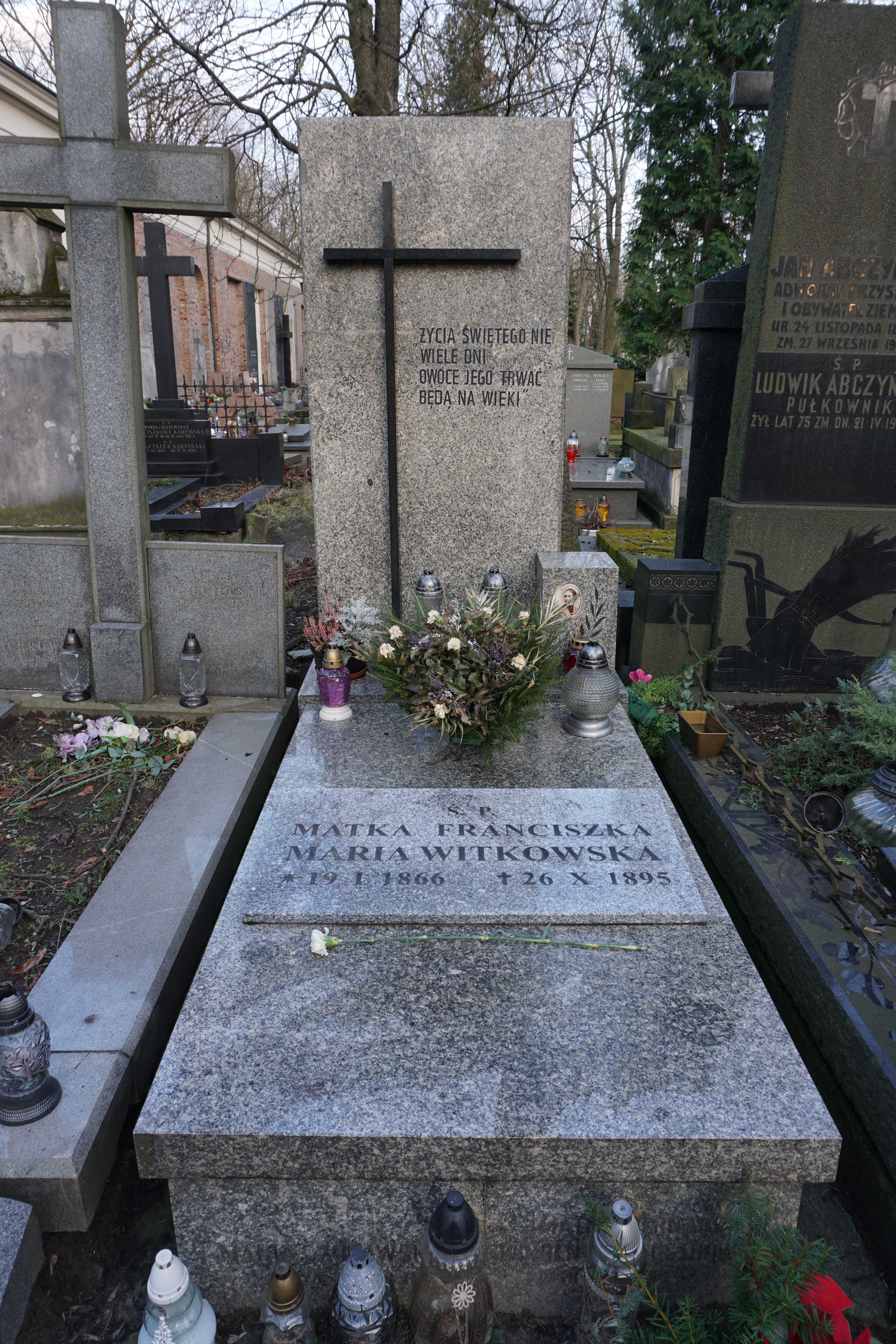 The grave of Maria Aniela Witkowska at the Powązki Cemetery (section 170, row 6, grave 4)